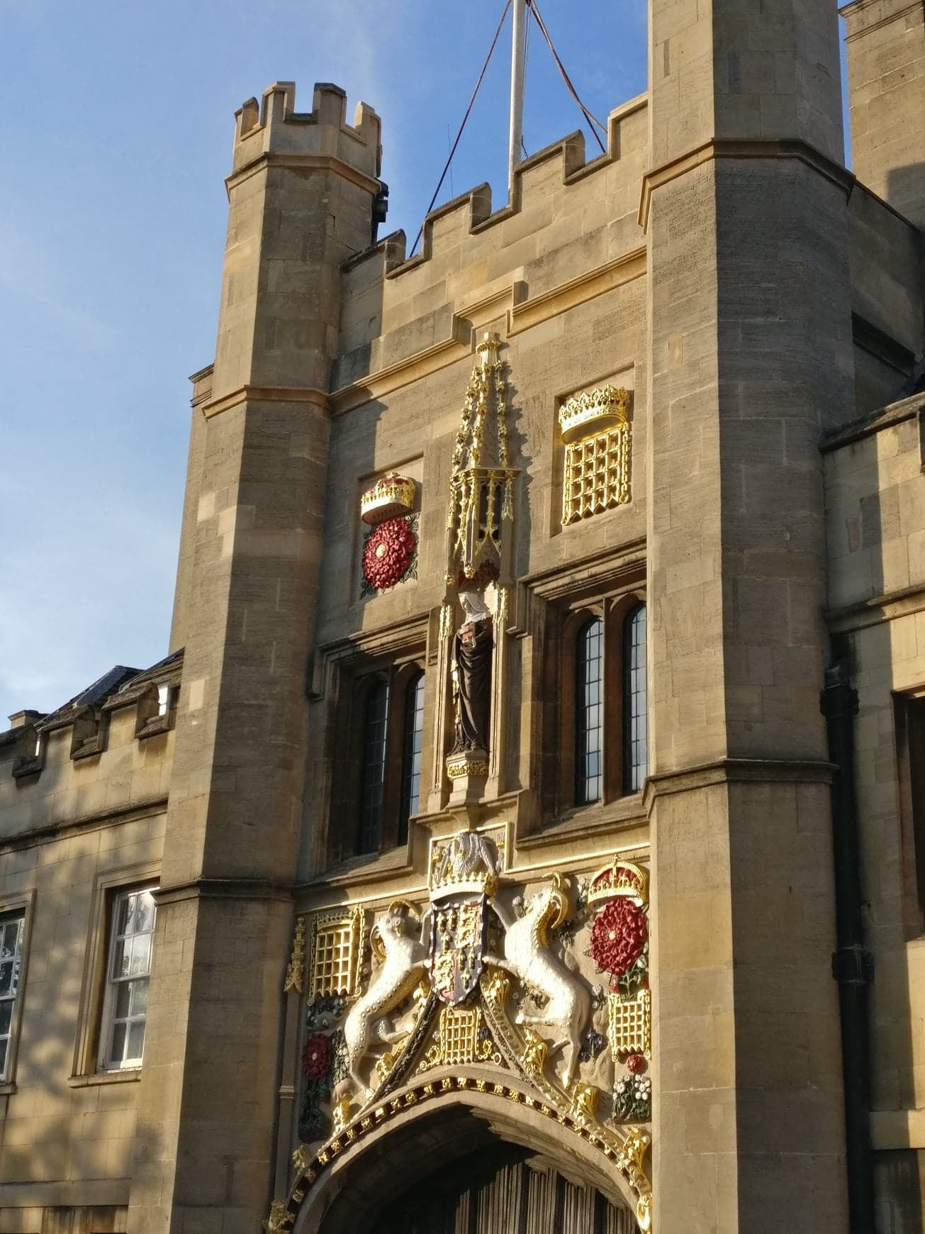 The Great Gate of Christ's College shining in the sun from St. Andrew's Street